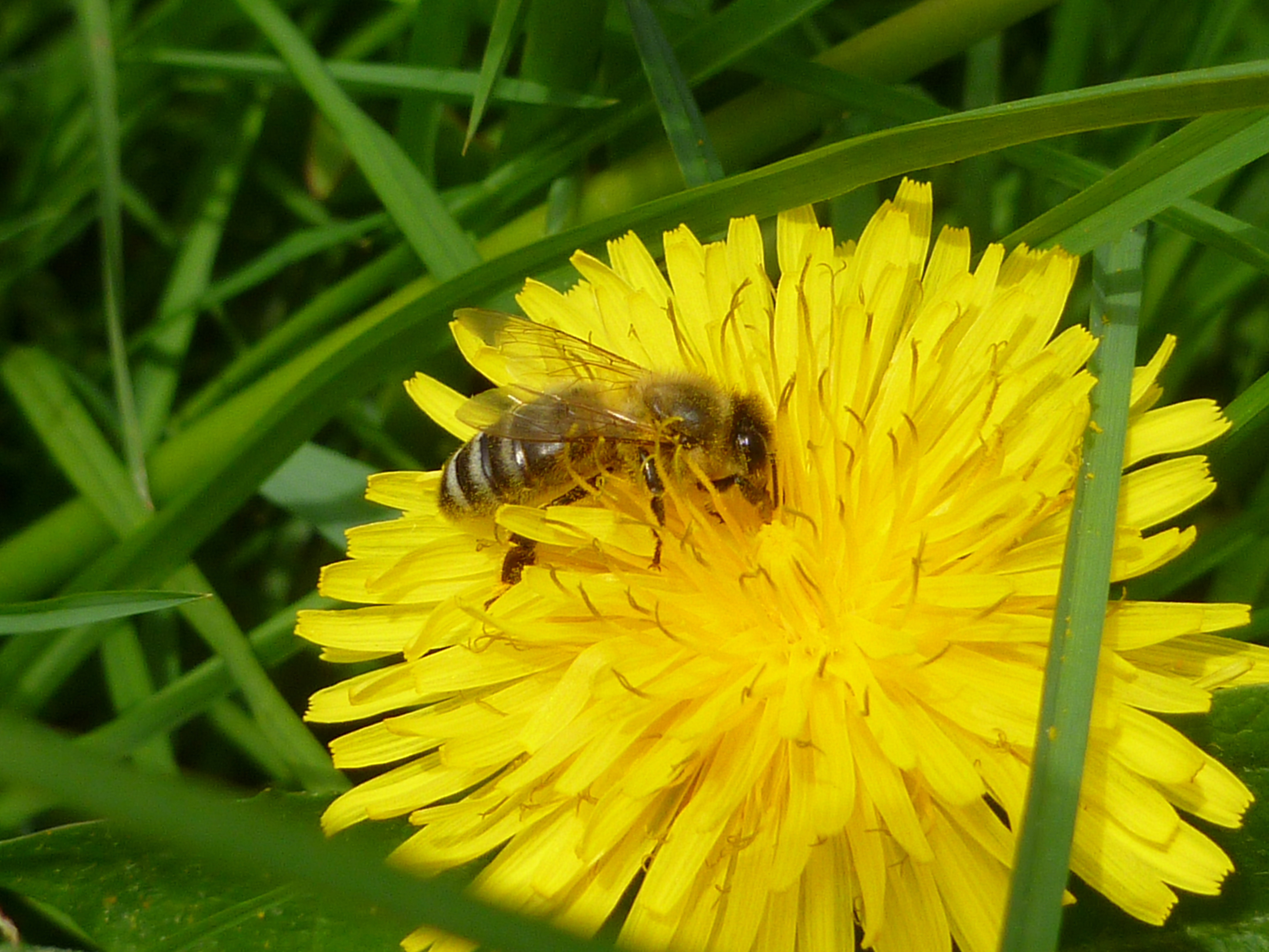 Bee collecting pollen on dandelion